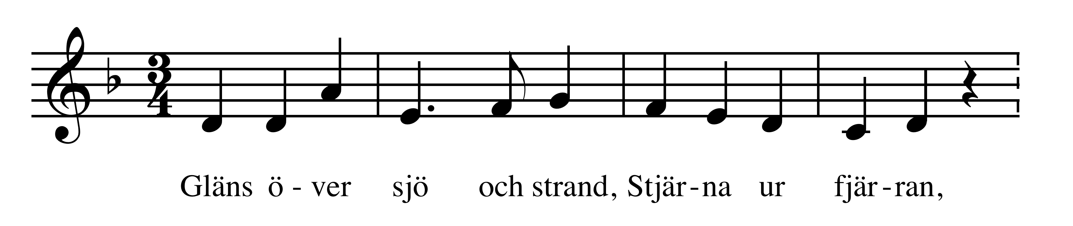 Gläns över sjö och strand (Widéen)